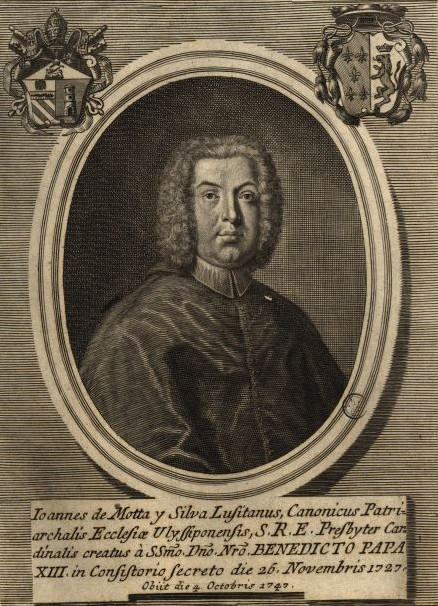 Portrait of João da Mota e Silva (1685-1747), cardinal-Archbishop of Braga and prime-minister of Portugal.